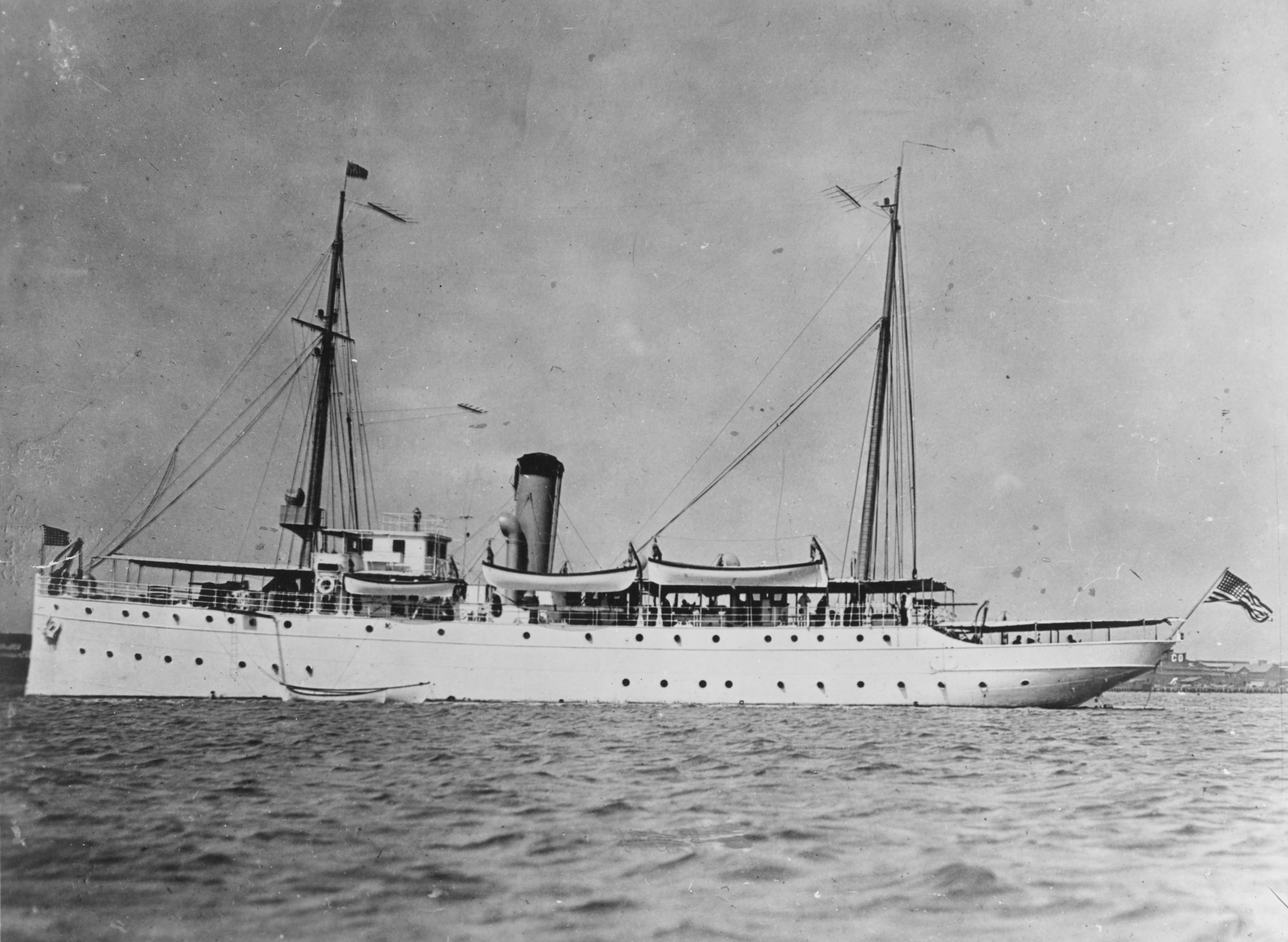 Miami-class cutter USCGC Tampa photographed in harbour, prior to the First World War. Completed in 1912 as the U.S. Revenue Cutter Miami, this ship was renamed Tampa in February 1916. On 26 September 1918, while operating in the English Channel, she was torpedoed and sunk by the German Submarine UB-91. All 131 persons on board Tampa were lost with her, the largest loss of life on any U.S. combat vessel during the First World War.